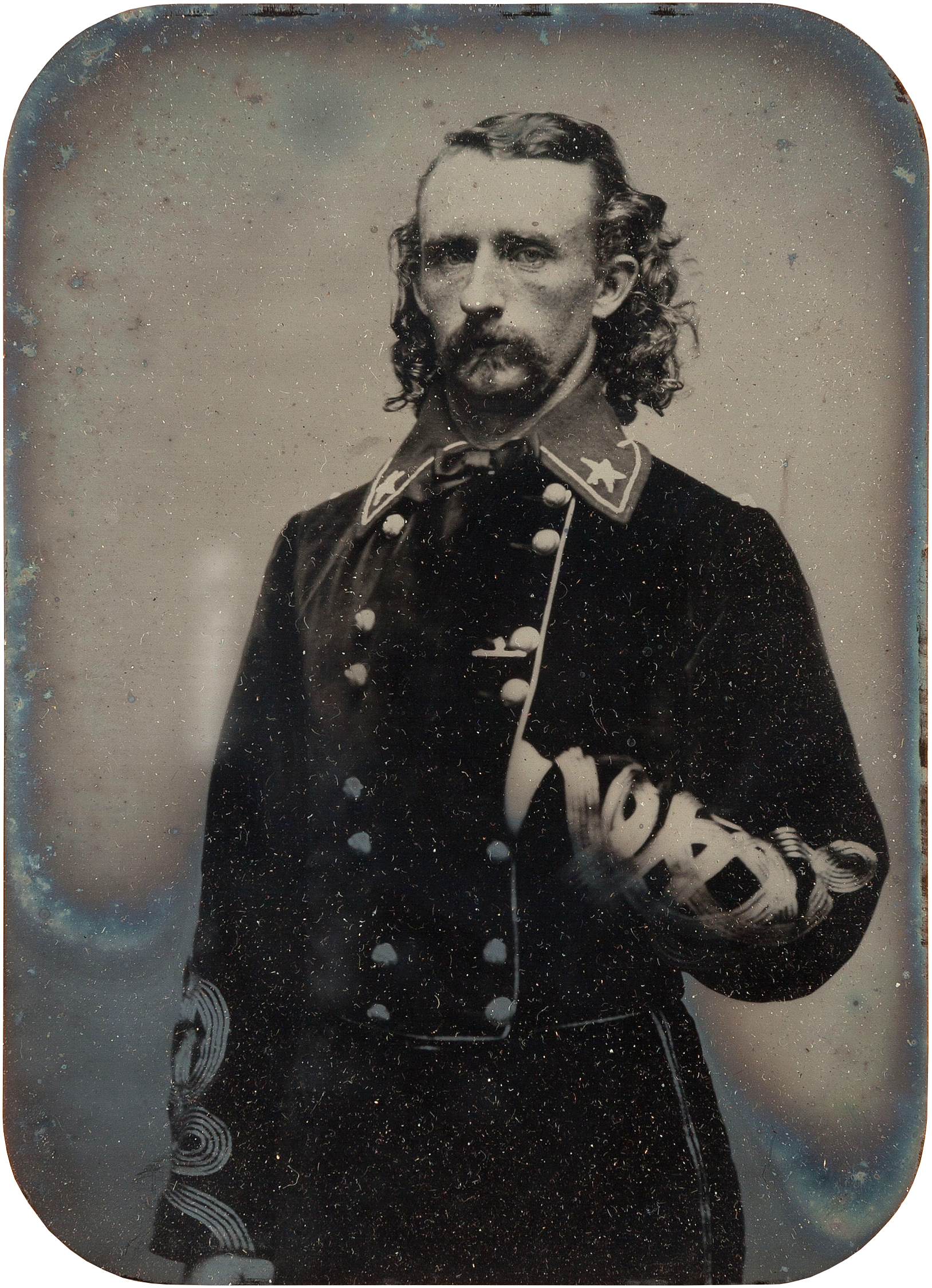 Half plate ambrotype of George Armstrong Custer in a Brigadier General Uniform